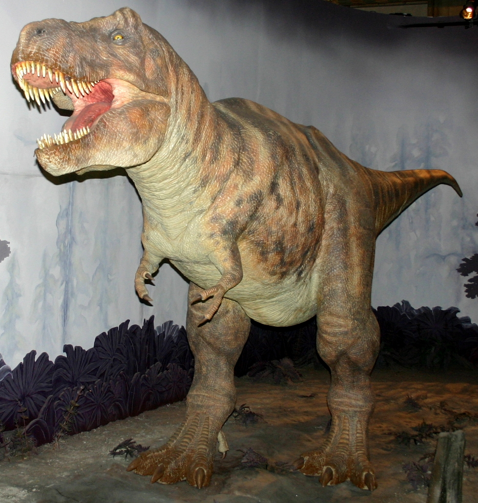 A reconstruction of Tyrannosaurus at Natural History Museum